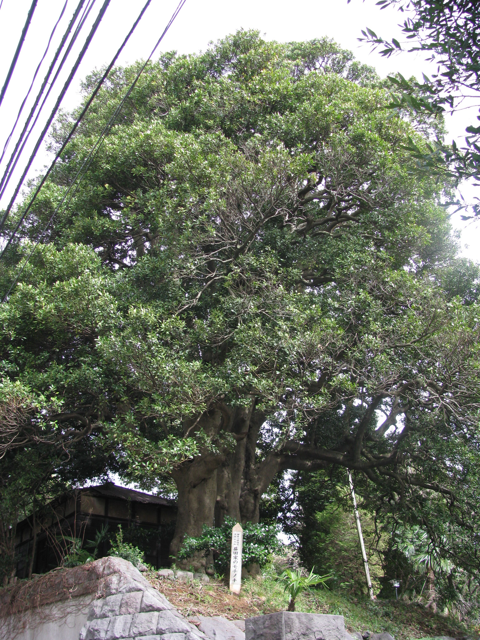 Two Trees is Masuda House's Ilex integra.